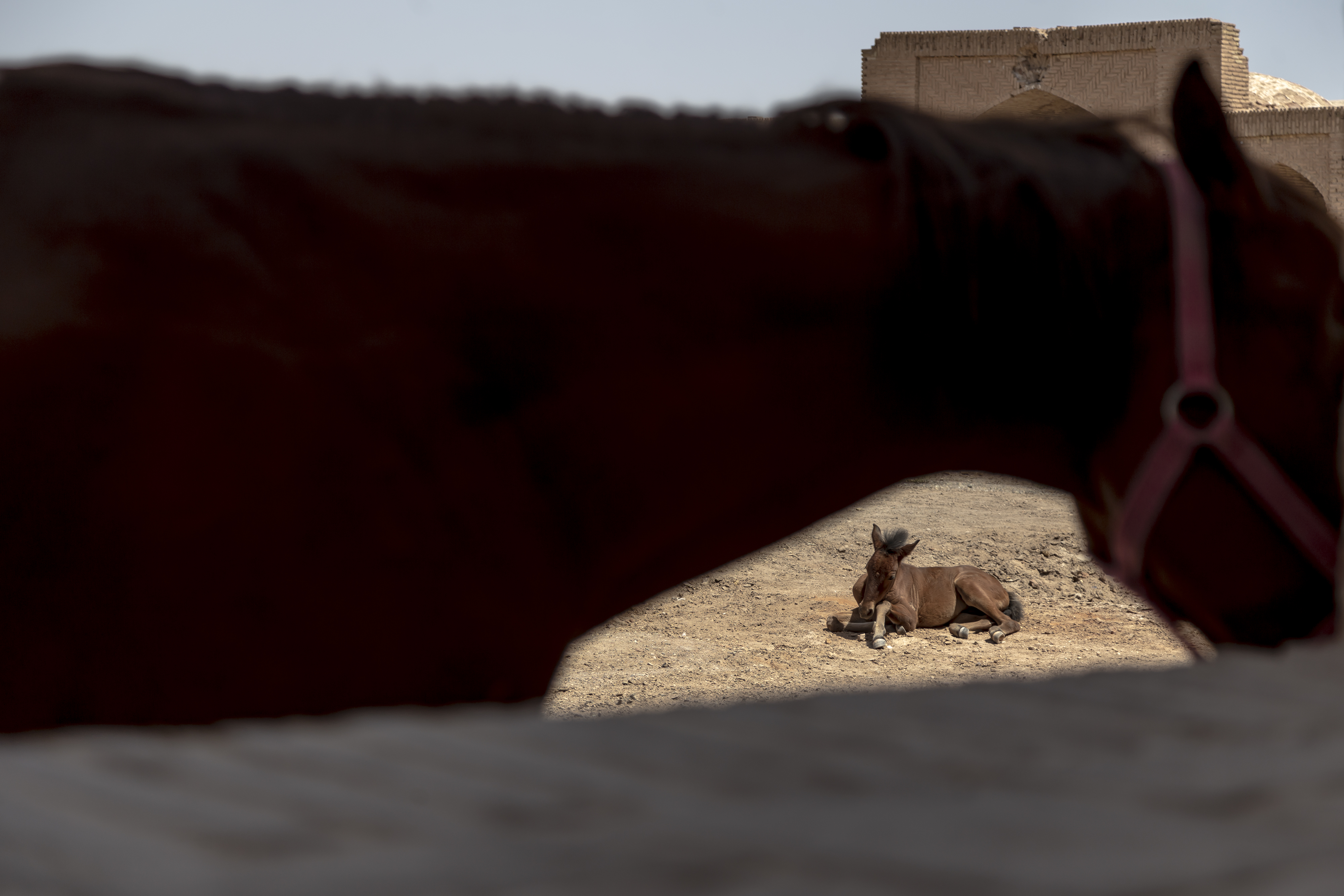 The horse is one of two extant subspecies of Equus ferus. It is an odd-toed ungulate mammal belonging to the taxonomic family Equidae.